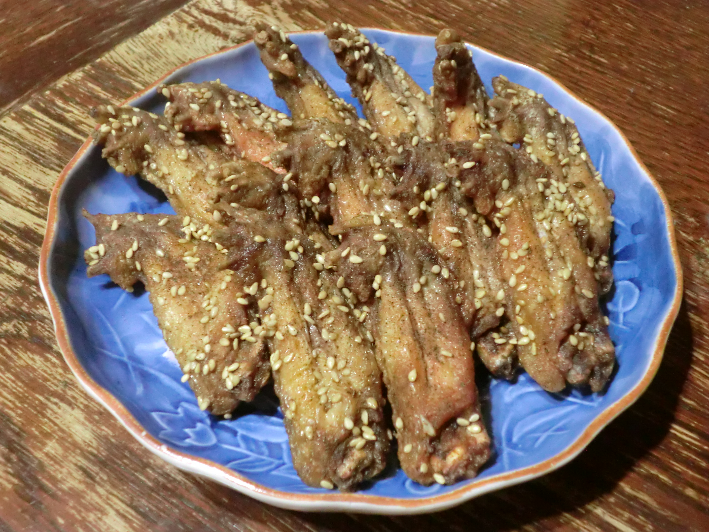 Chicken wing karaage of "Furaibo", famous karaage shop from Nagoya, Aichi, Japan.